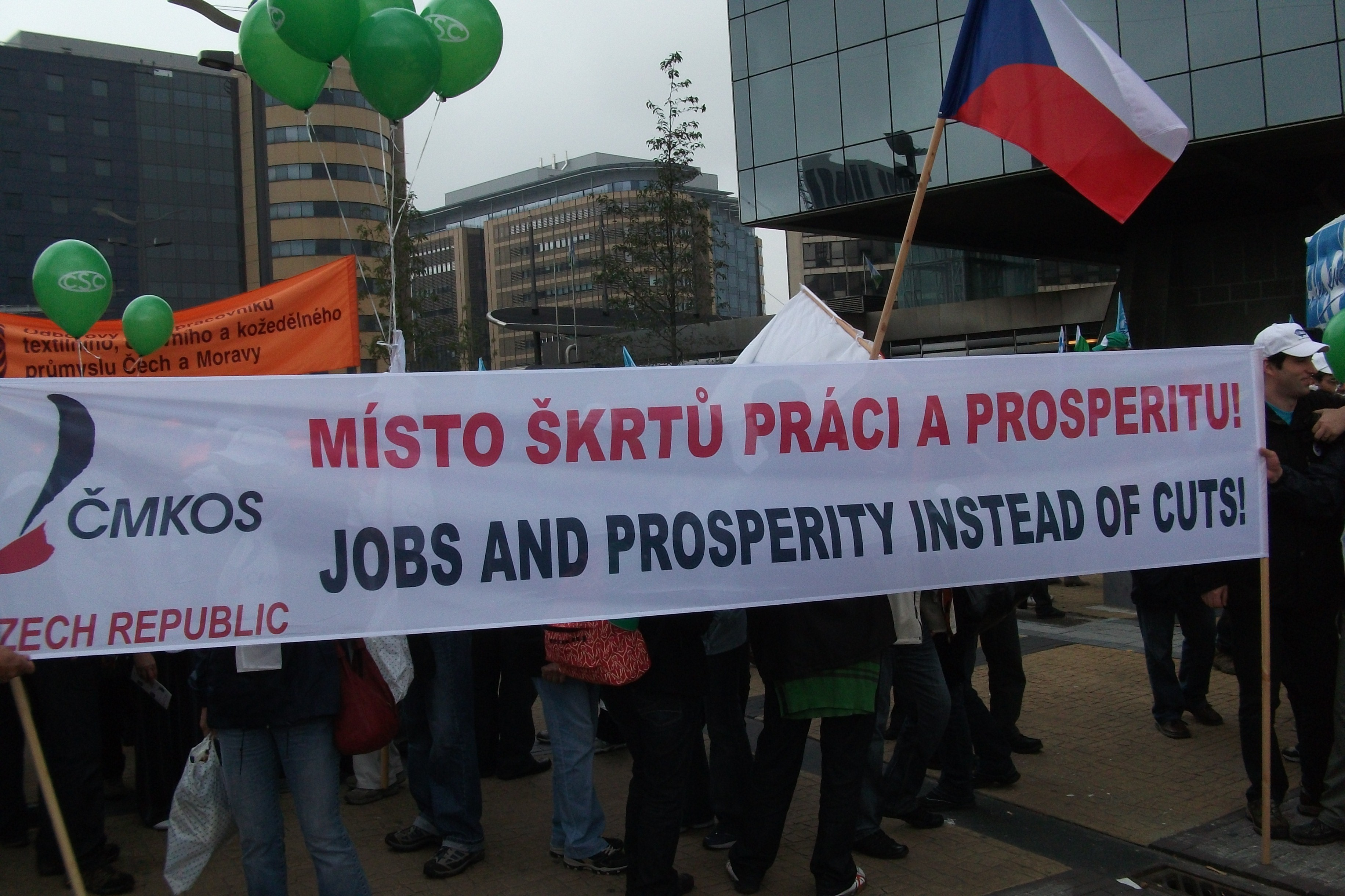 bruxelles 2010 manifestation d'un syndicat tchèque.